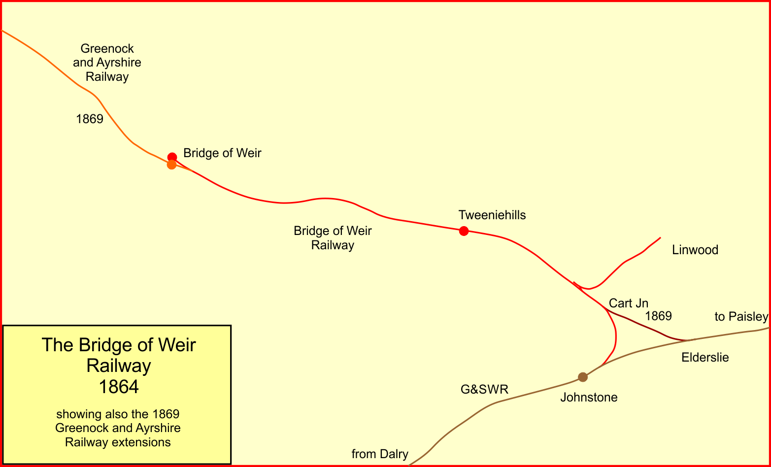 Systenm map of the Bridge oif Weir Railway 1864